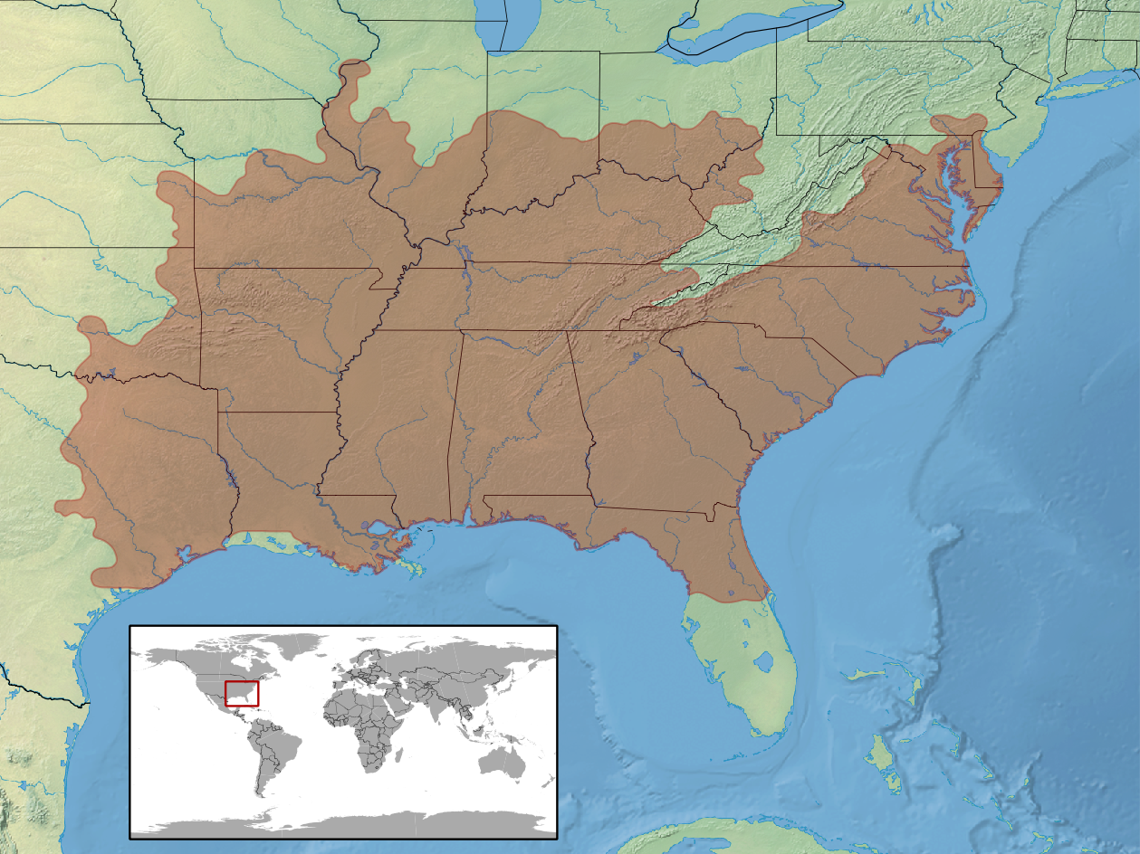 geographic distribution of Plestiodon laticeps